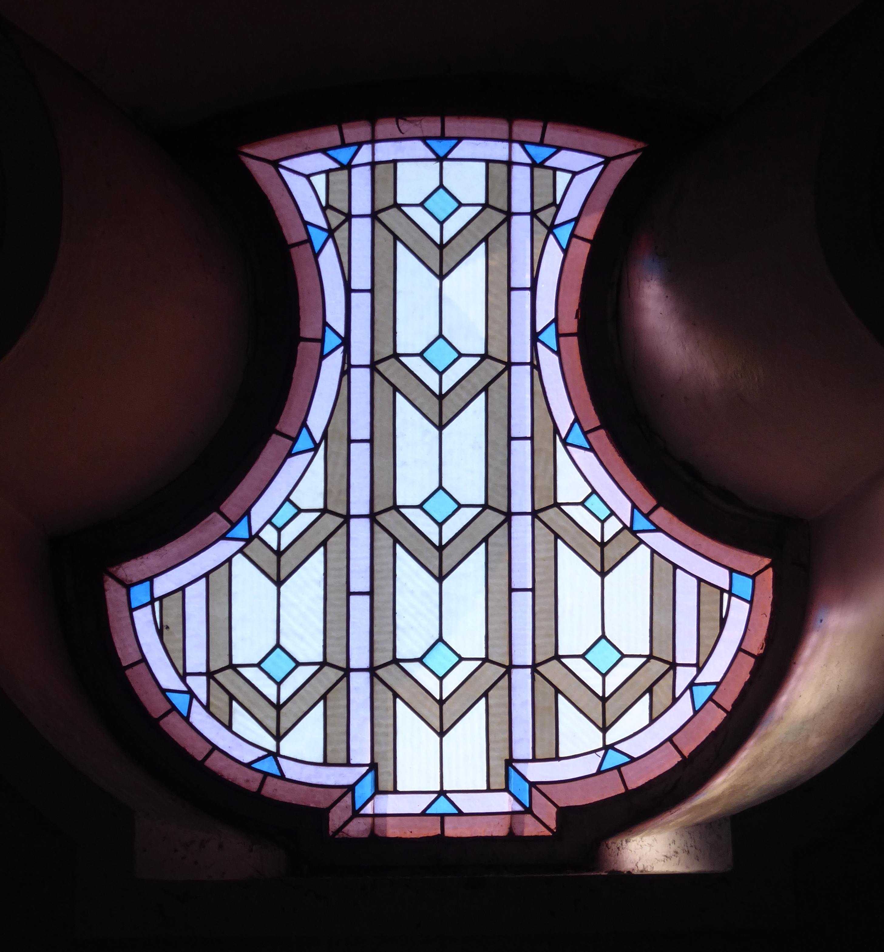 Masi di Cavalese (Cavalese, Trentino, Italy) - Holy Trinity church - Stained glass window